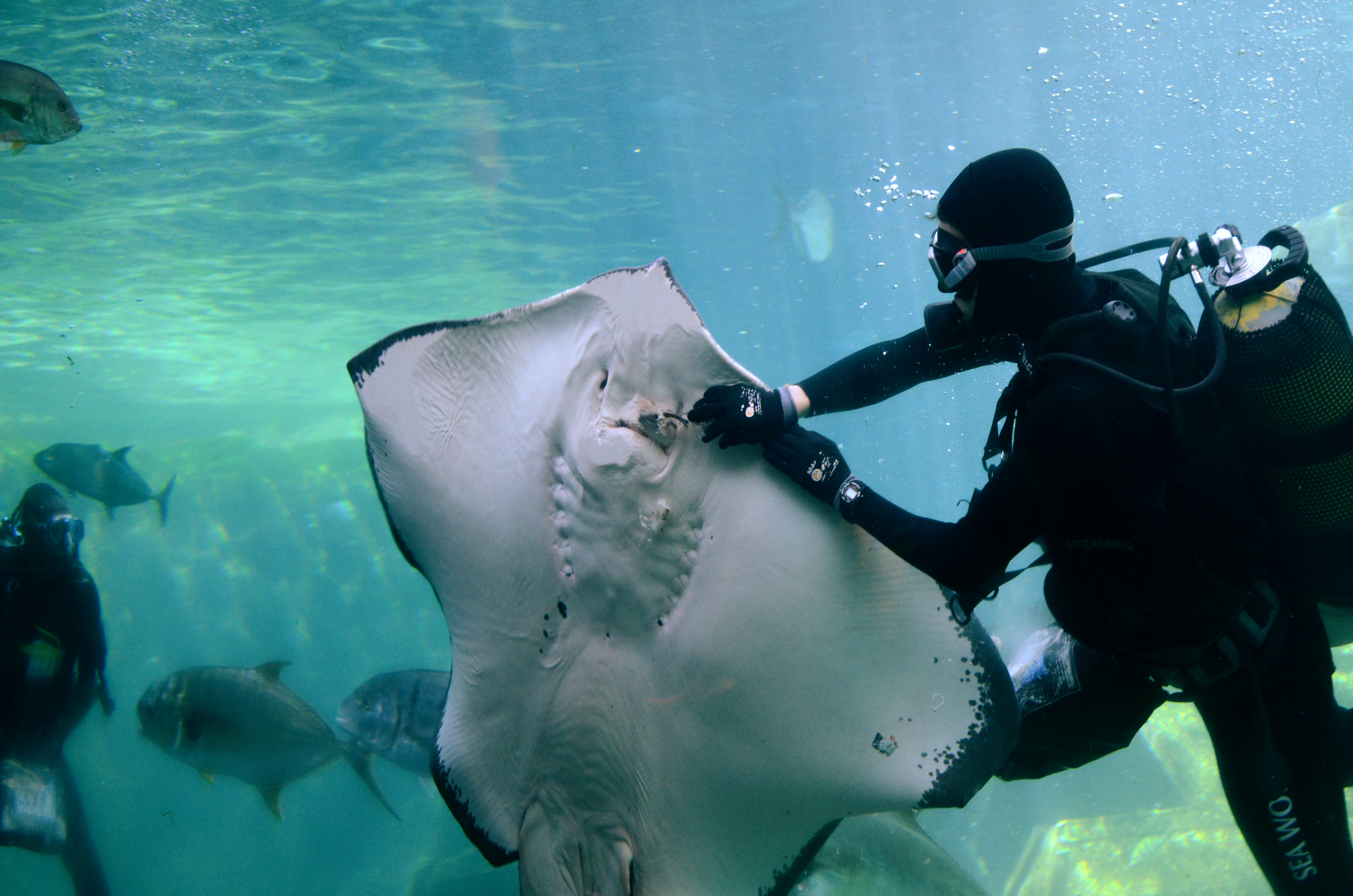 Dasyatis brevicaudata (short-tail stingray or smooth stingray) in uShaka Sea World